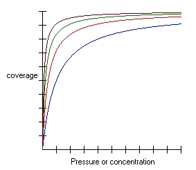 Langmuir isotherm